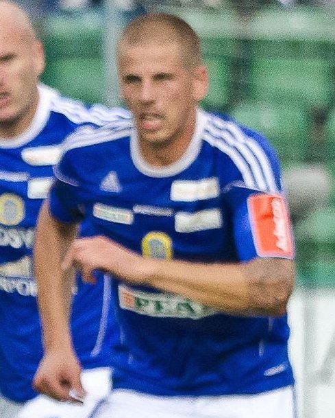 Cropped version of File:FreddySöderberg 110723GIFS-Öster 2-1 7341.jpg